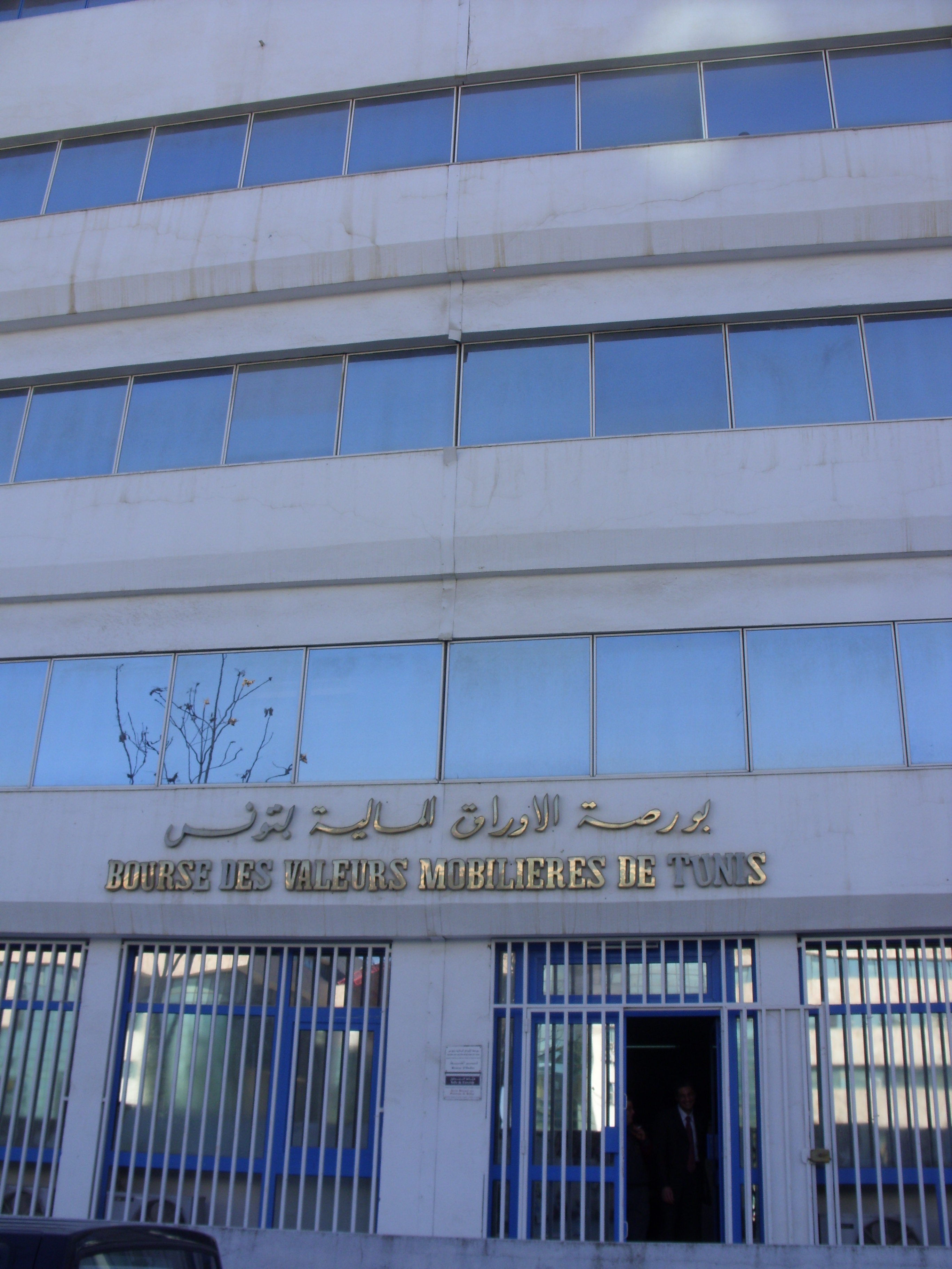 Tunisian Stock exchange headquarters in Montplaisir